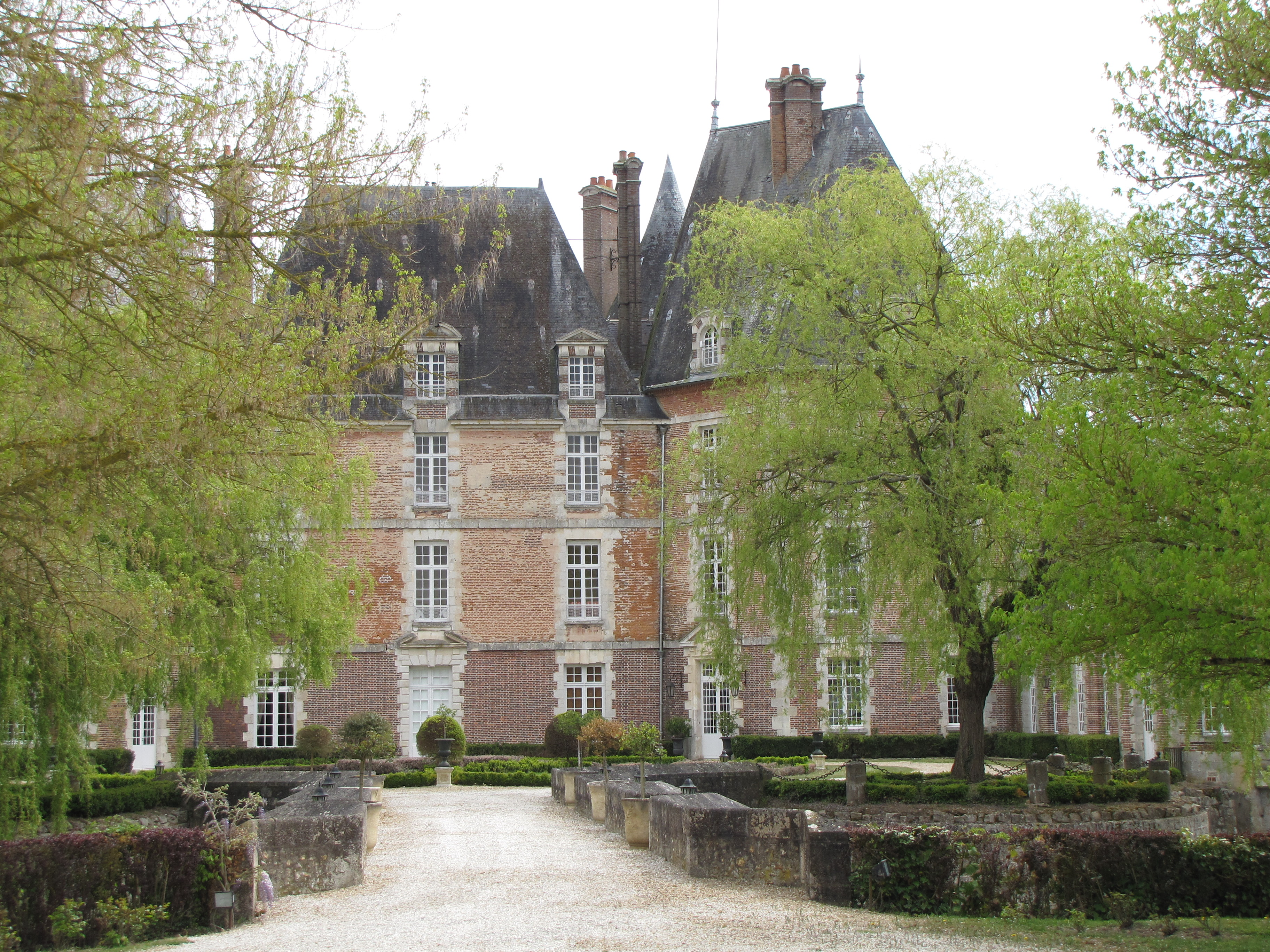 Château-Renard, Loiret. la Motte castle.